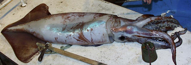 Name: Neon flying squid (Ommastrephes bartramii). Location: Northern Hawaiian waters. Specimen Condition: Fresh. View: Ventral. Originally licensed under: Creative Commons Attribution-NonCommercial License - Version 3.0. Original Author: Richard E. Young, The Tree of Life Web Project.